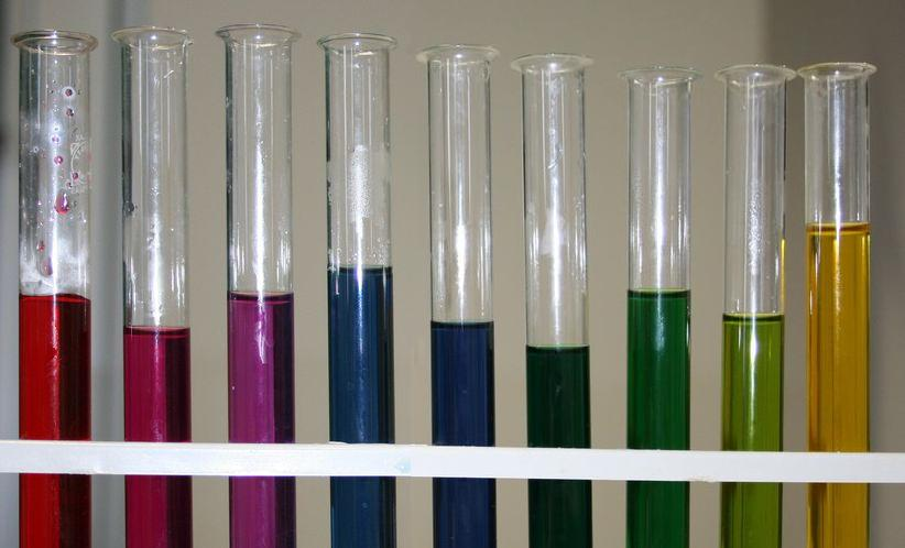 natural pH indicator Red Cabbage (left side acidic, right alkaline)